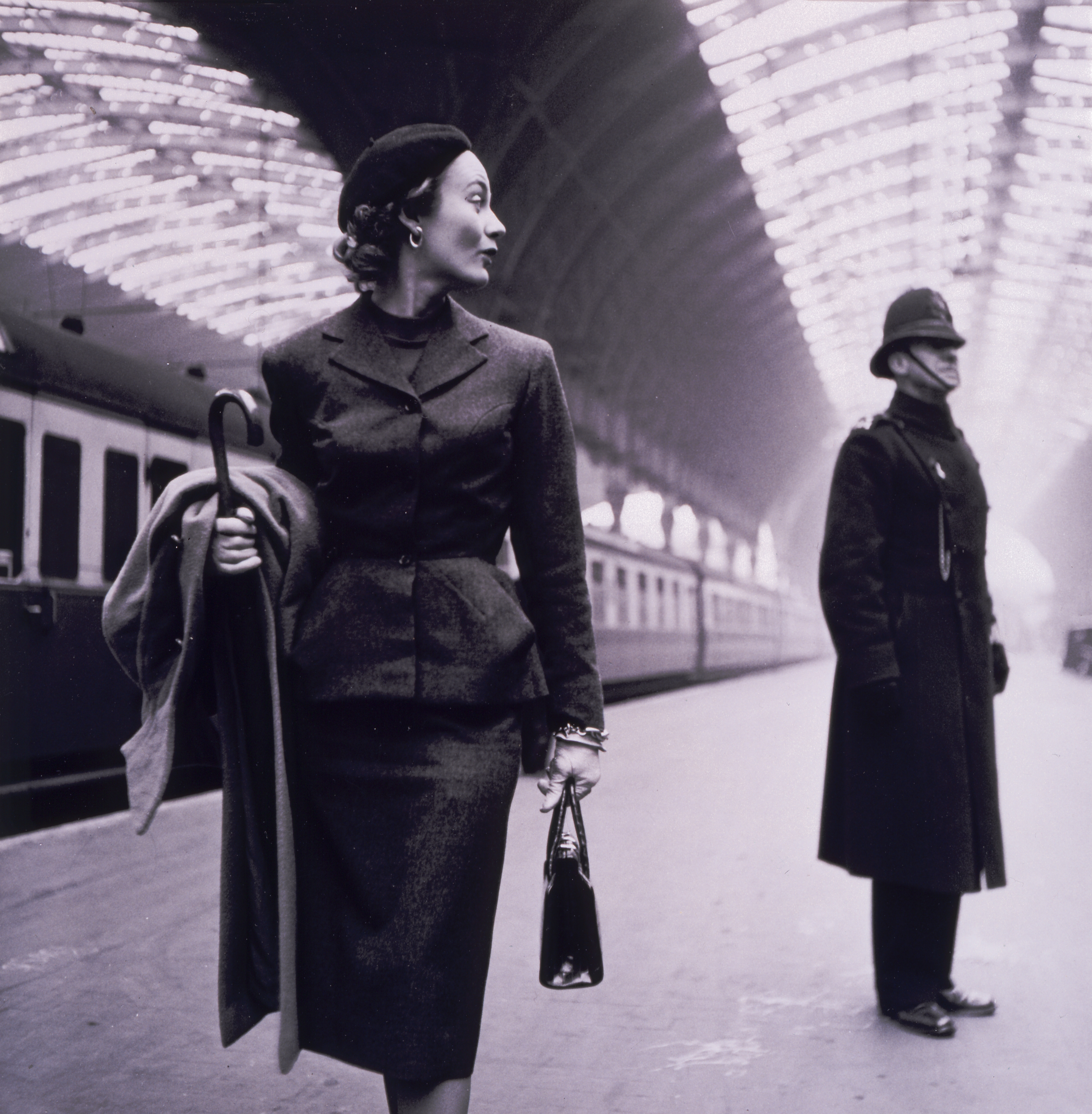 Fashion model Lisa Fonssagrives in Paddington station, London, by American photographer Toni Frissell (1907-1988). Color film copy transparency from black-and-white original. Originally published in Harper's Bazaar, 1951; re-published in Toni Frissell: Photographs, 1933-1967, New York, NY: Doubleday, 1994. (The location of this picture is misidentified in the US Library of Congress record as "Victoria Station".)